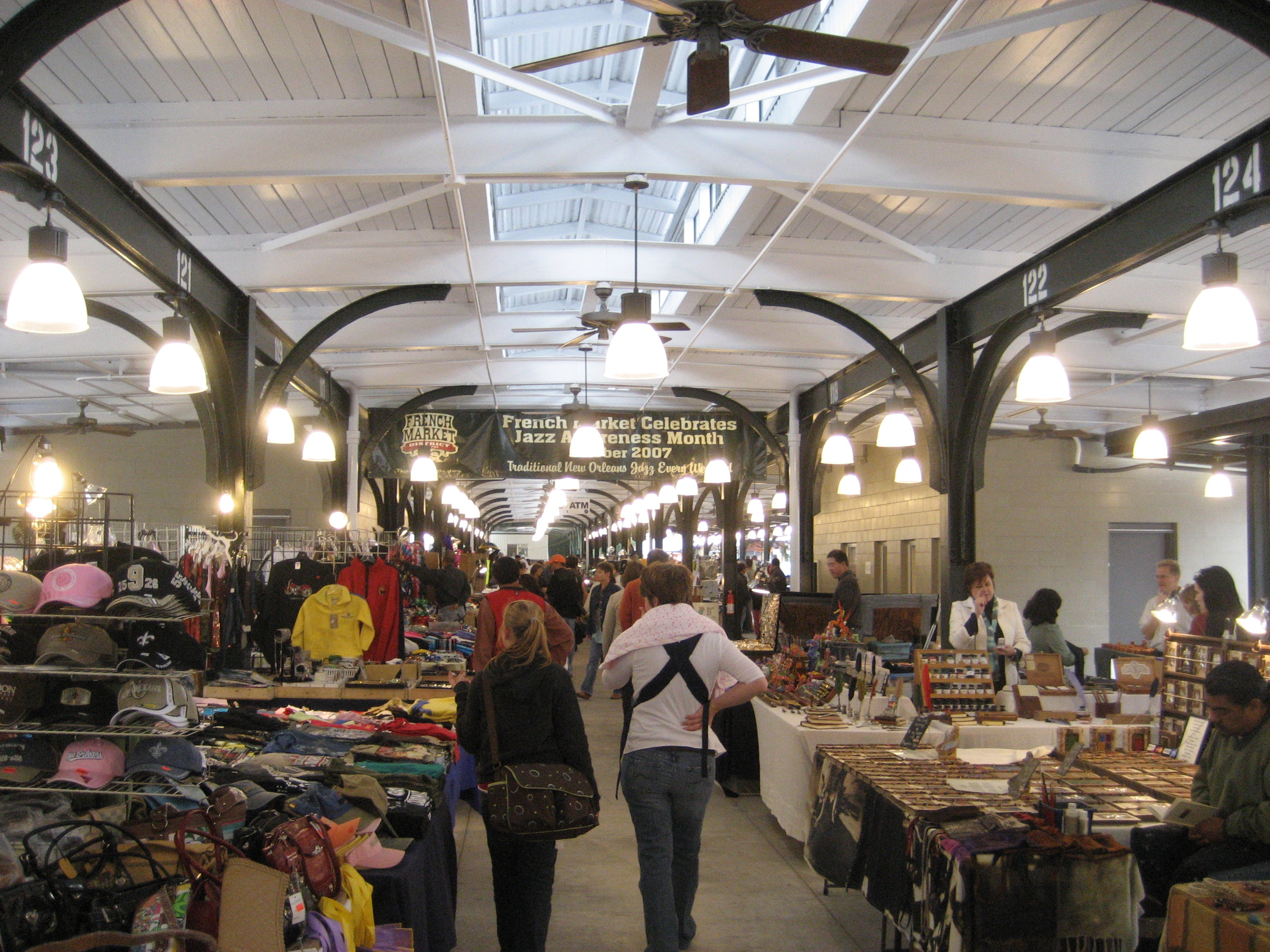 French Market, New Orleans. Area still active as a produce market not many years ago, now mostly devoted to souvineers for tourists.